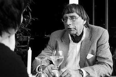 Prof. Dr. Alois Hahn